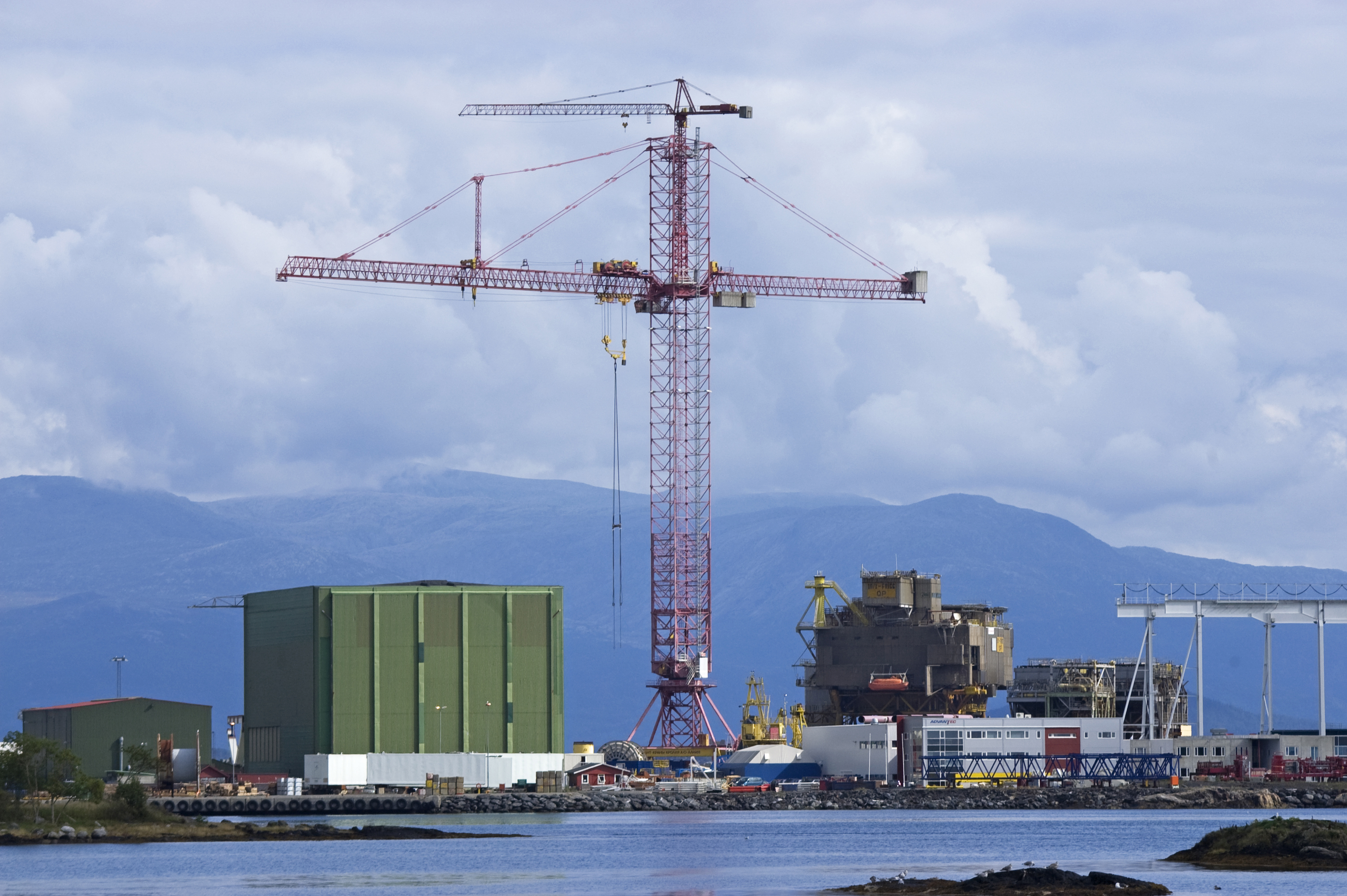 Kroll K 10'000